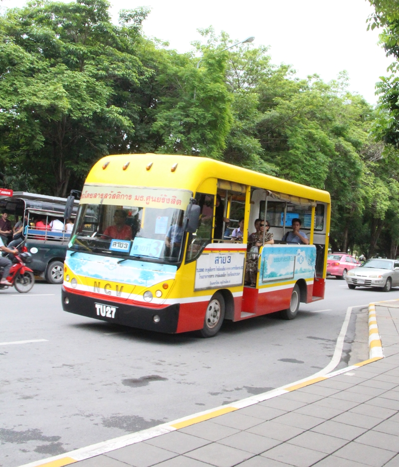 NGV bus at Thammasat University, Rangsit